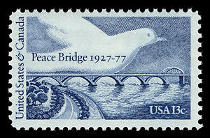 1977 US postage stamp: 13-cent stamp issued on August 4, 1977 honoring the 50th anniversary of the Peace Bridge